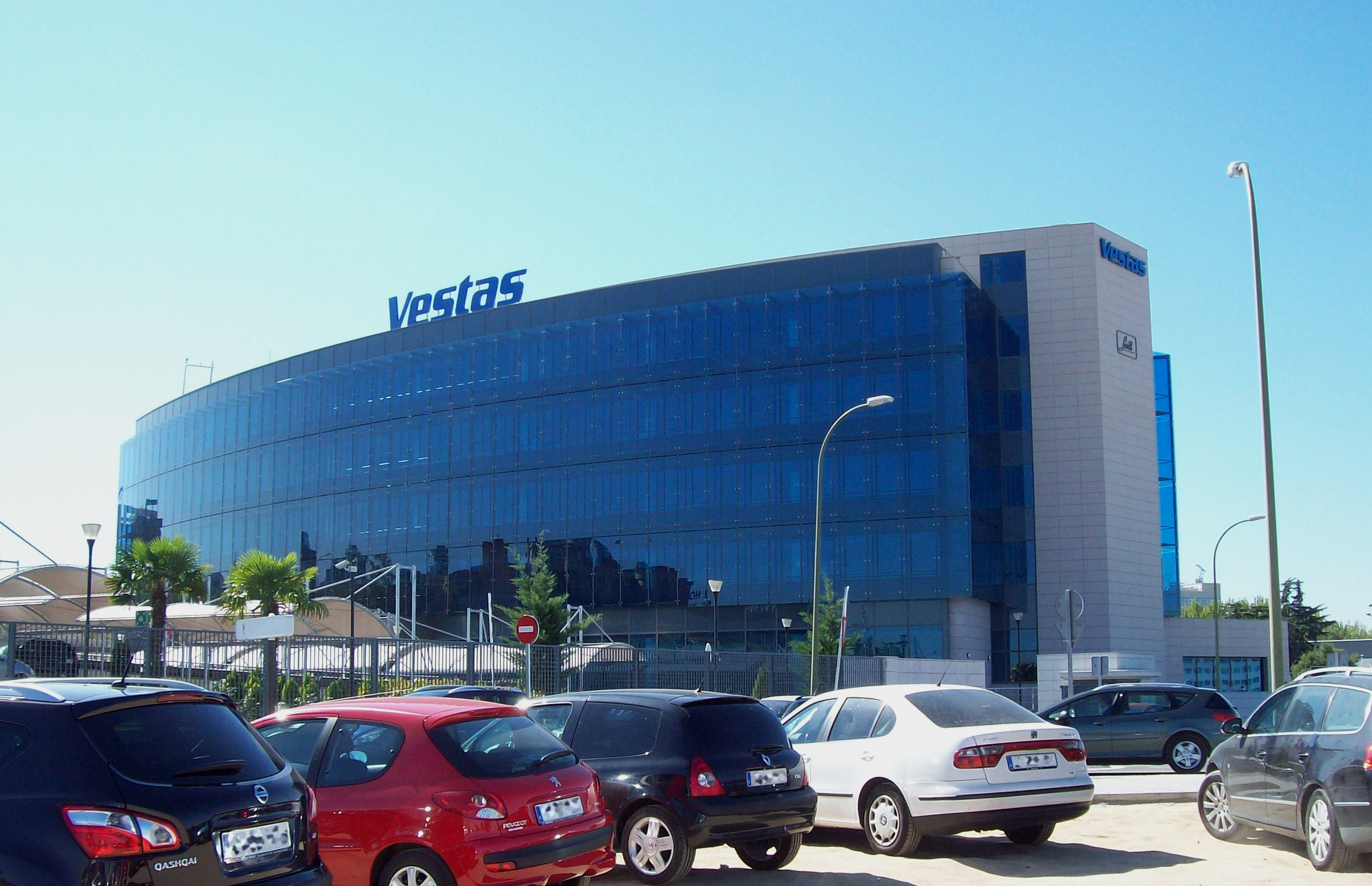 Façade of Vestas offices in Madrid (Spain), at 4th Calle del Arroyo de Valdebebas (street) in Sanchinarro neighborhood.